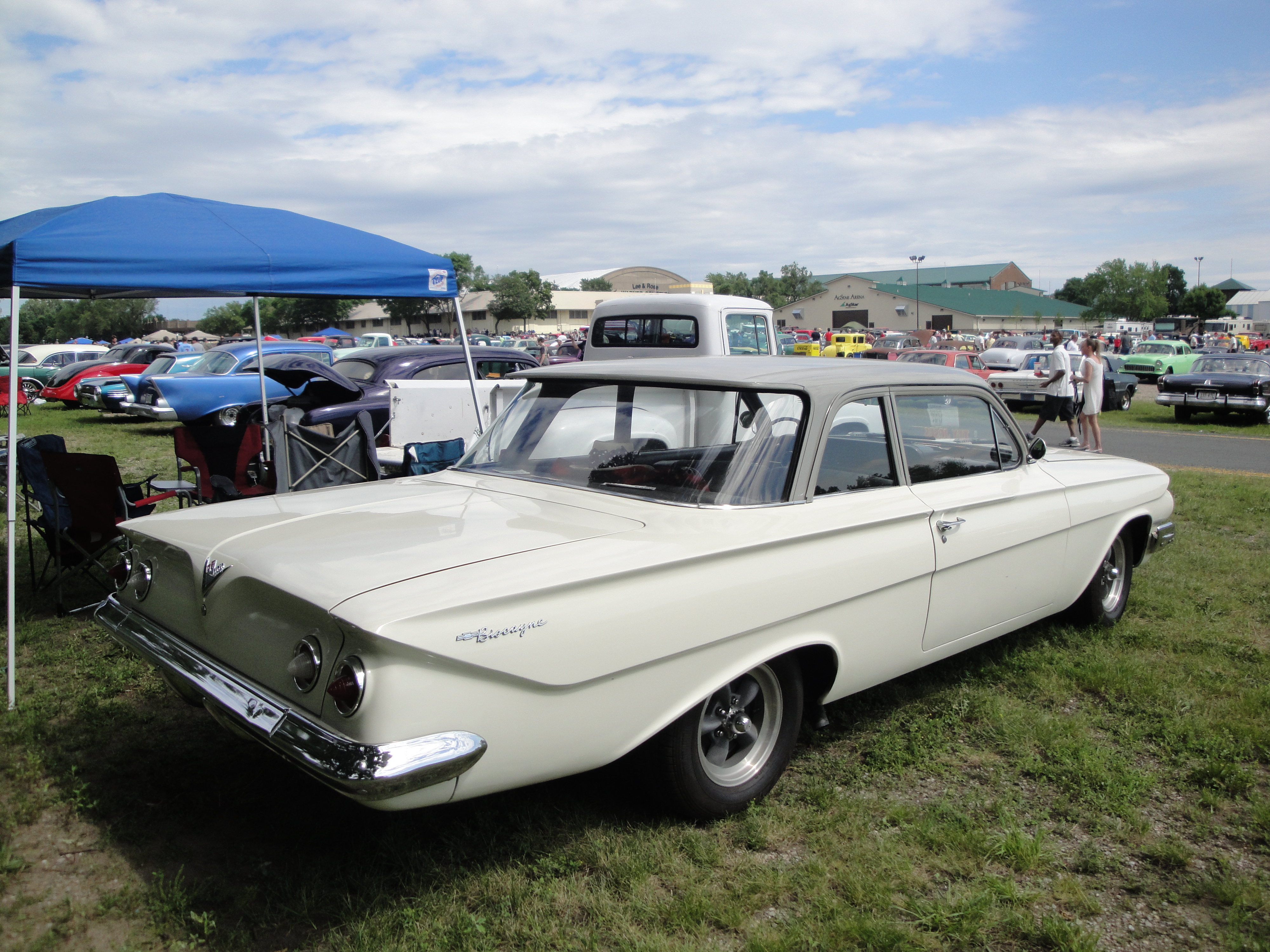 Minnesota Street Rod Association 39th Annual "Back to the Fifties" June 2012 Minnesota State Fairgrounds St. Paul MN